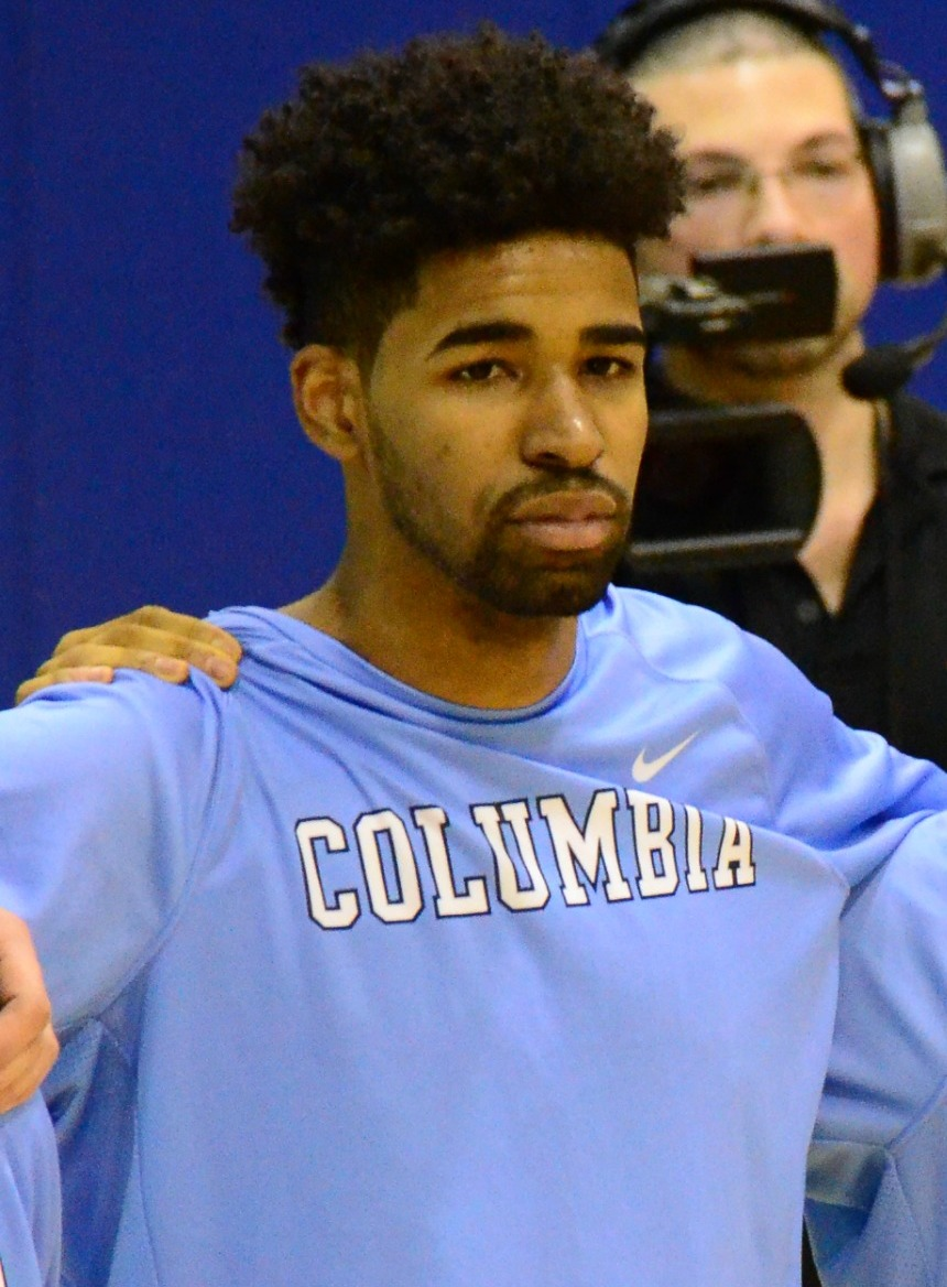 Jeff Coby and Maodo Lo